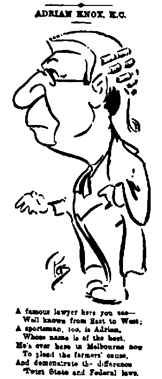 Caricature of Adrian Knox, with accompanying poem